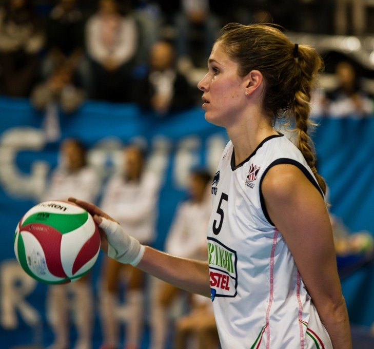 American volleyball player Alexandra Klineman.